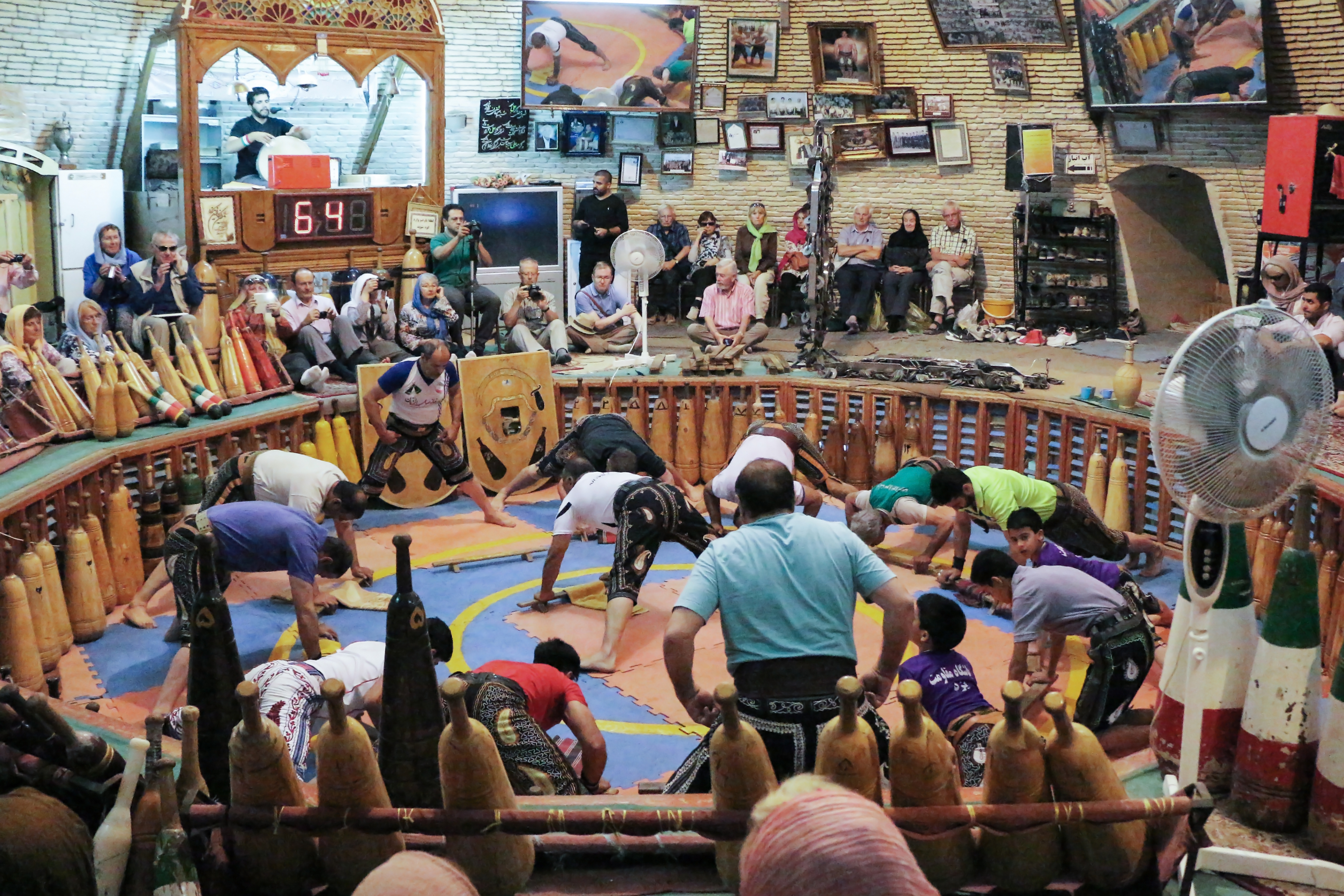 Pahlevāni and zoorkhāneh rituals in a zurkhāneh, Yazd, Iran